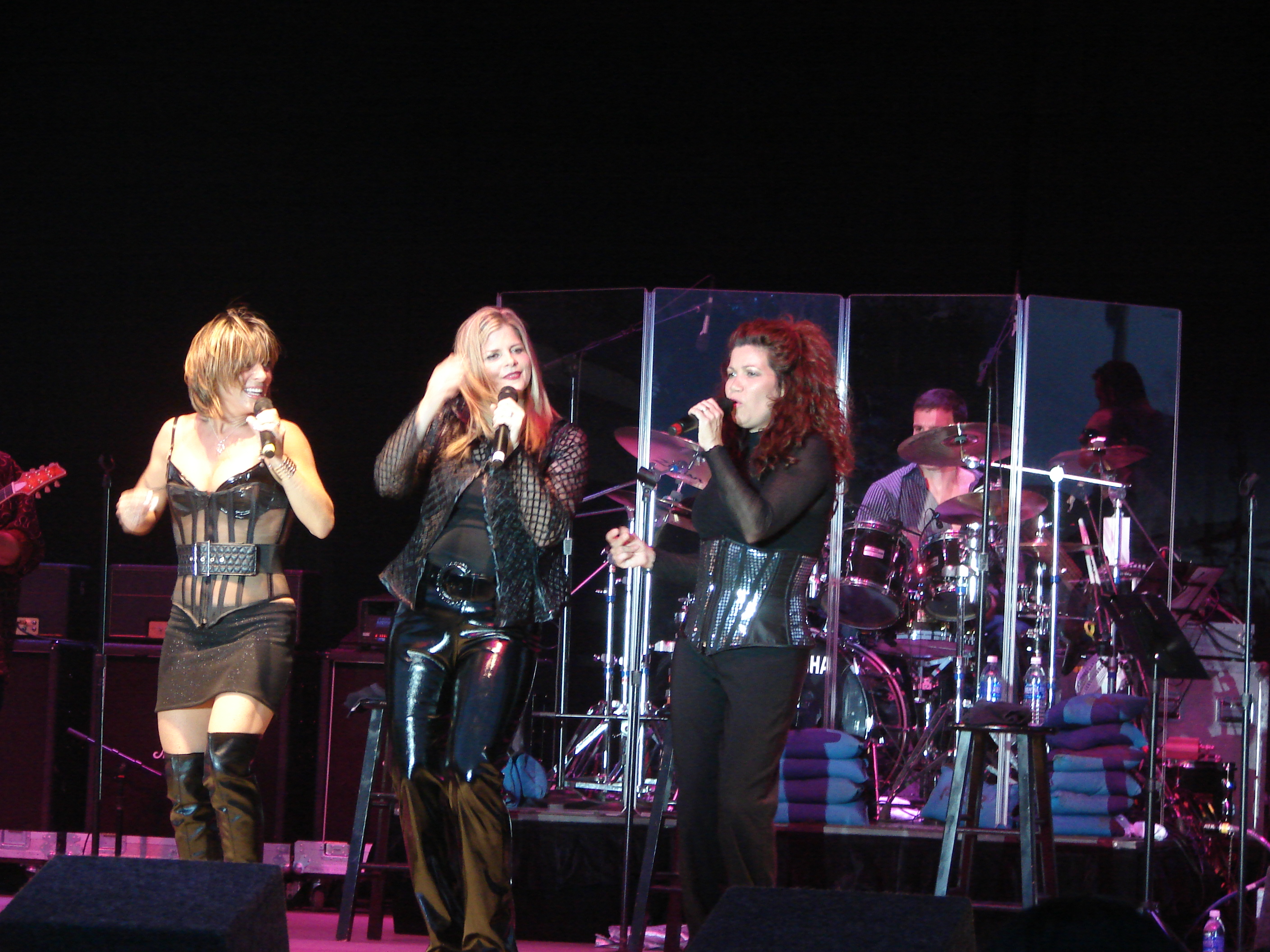 Gioia Bruno, Ann Curless and Jeanette Jurado of Exposé during a live concert in Palmdale, California on July 14, 2007 tbo452